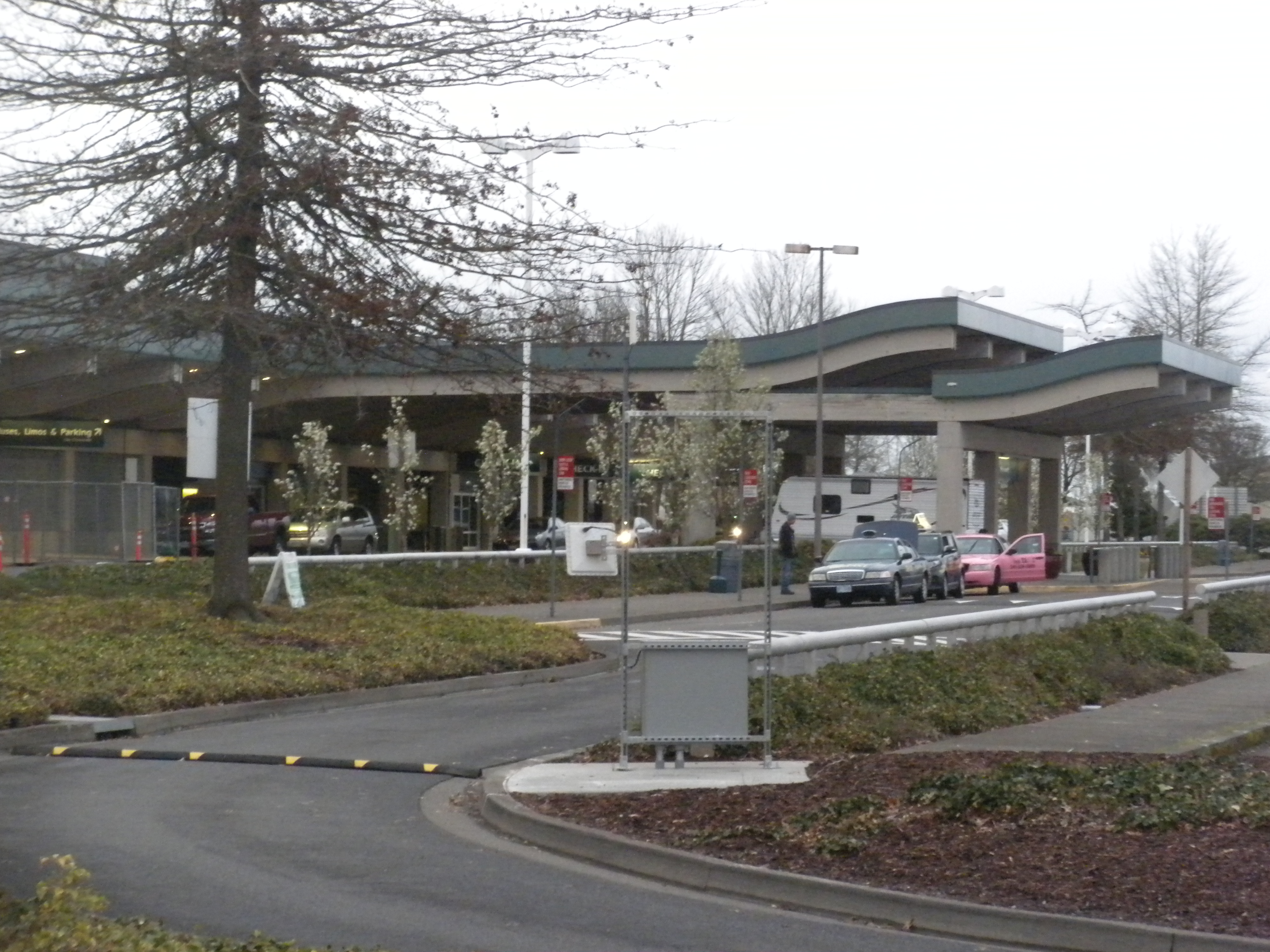 Terminal entrance at Eugene Airport